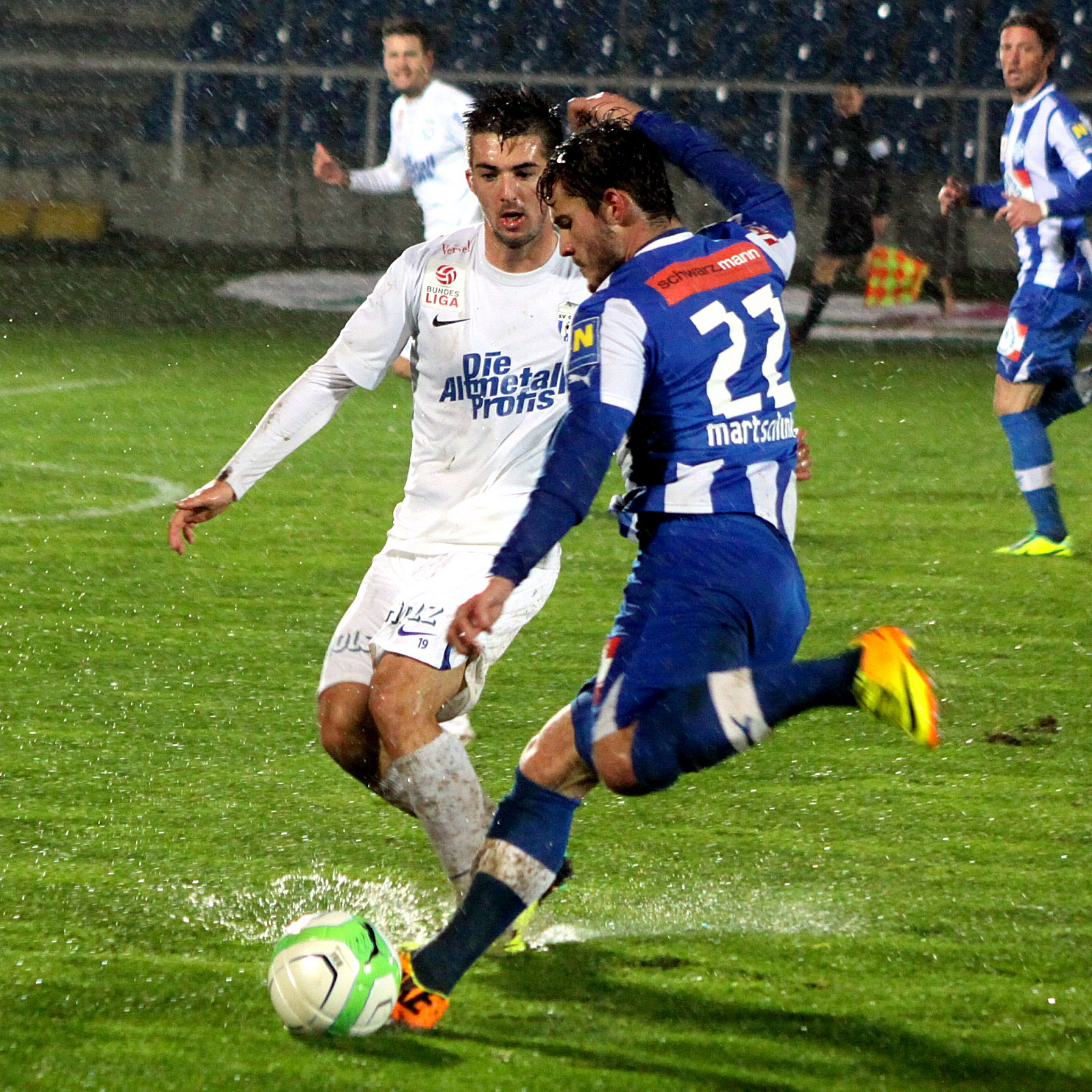 Austrian Football Bundesliga: SC Wiener Neustadt vs. SV Grödig (0:2) at 2013-11-23 in the Stadion Wiener Neustadt. – The photo shows Christoph Martschinko (SC Wiener Neustadt, blue shirt) und Marvin Potzmann (SV Grödig, white shirt).